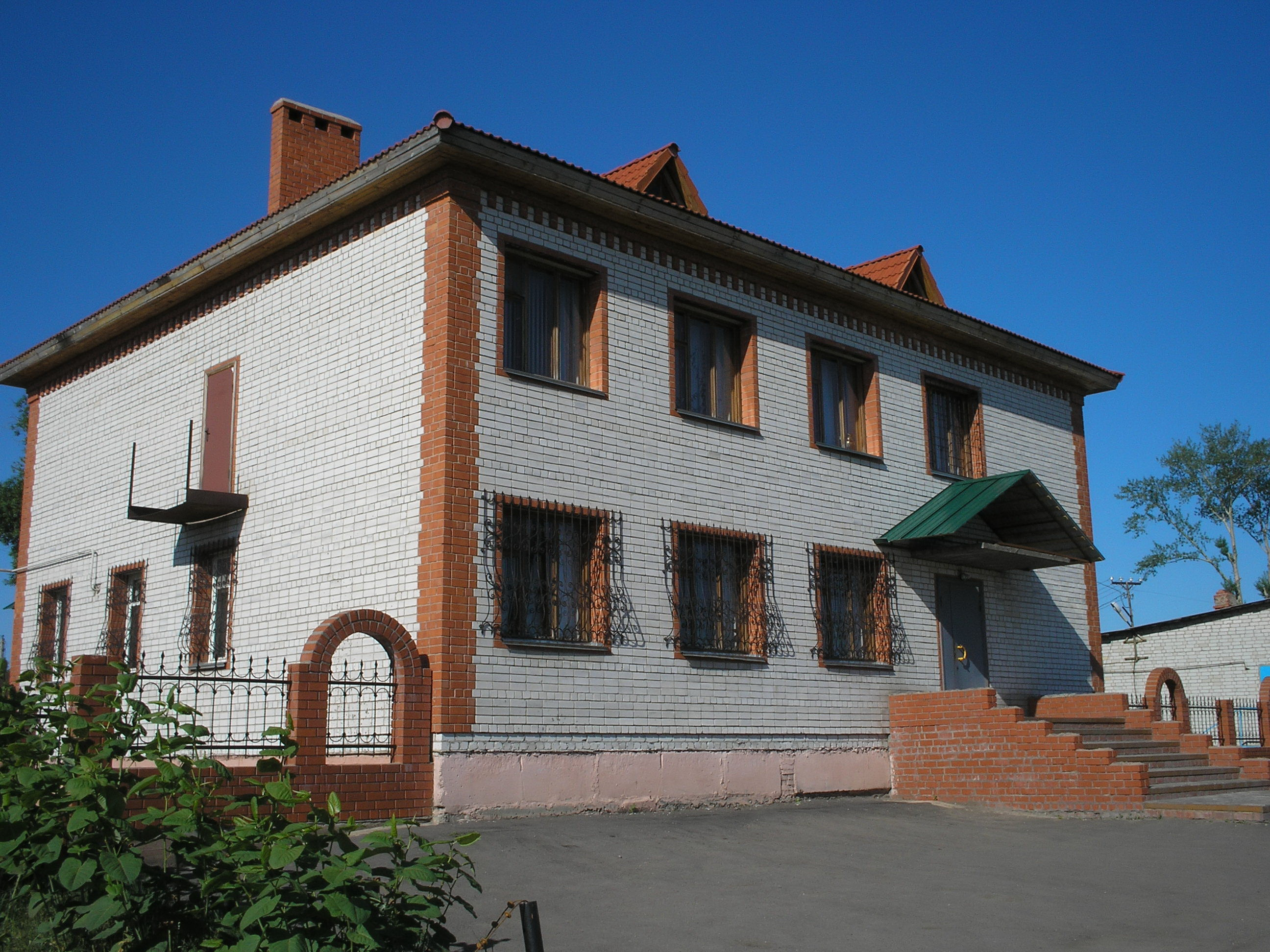 Rtishchevo. Joint-Stock Company "Ptitsevod". Office